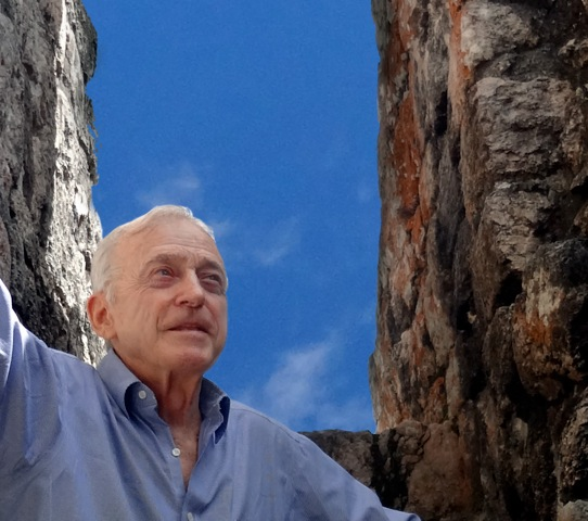 Carl Abbot at Chicanna